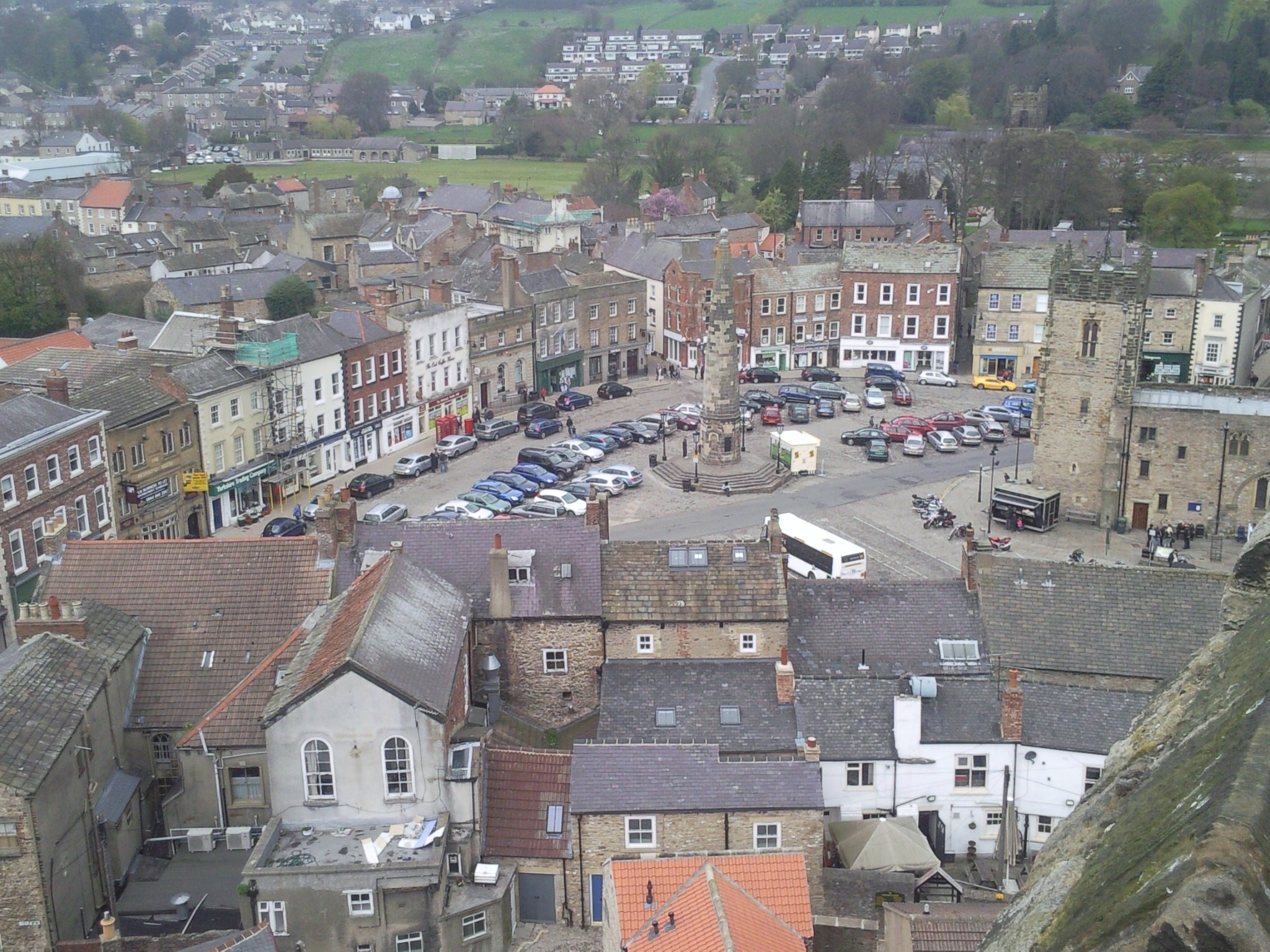 Panorama of Richmond, North Yorkshire from Maison Dieu.